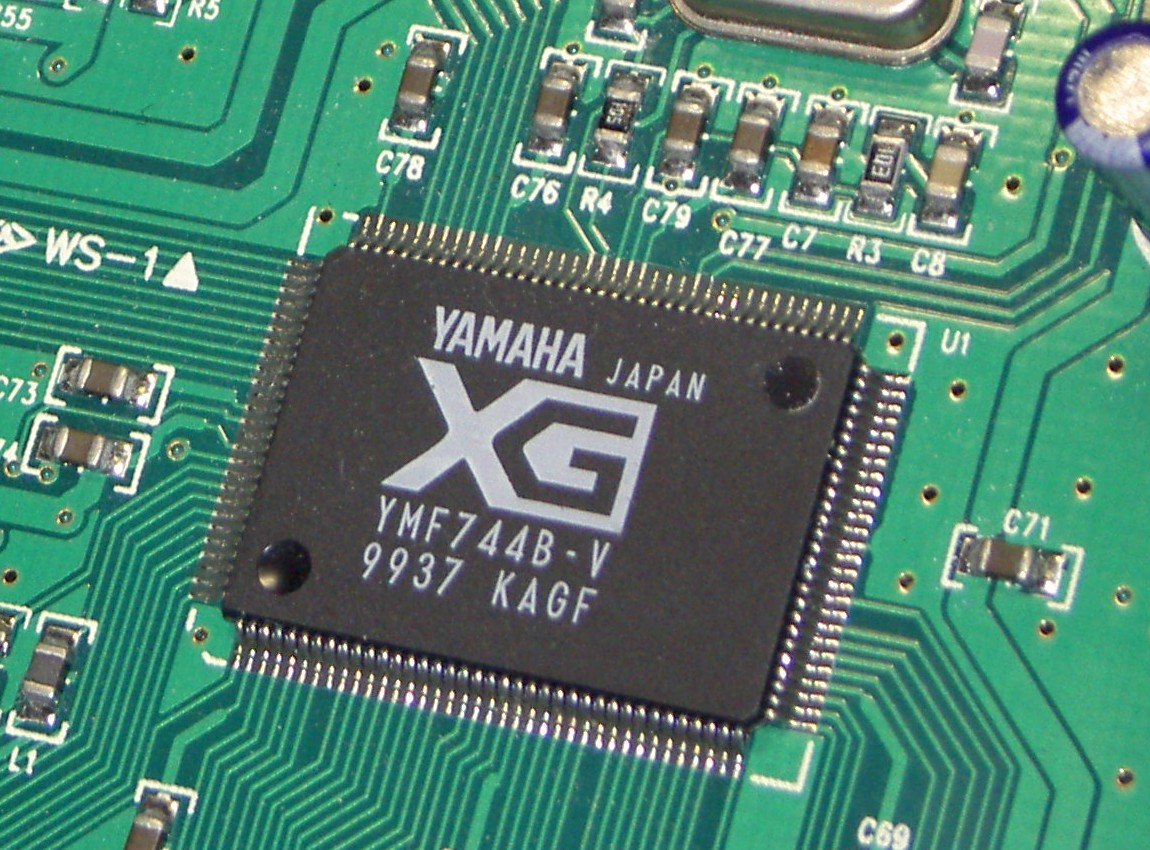 YAMAHA YMF744B-V XG format LSI